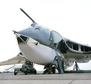 Handley Page Victor, Catalogue Number RAF-T 4865.